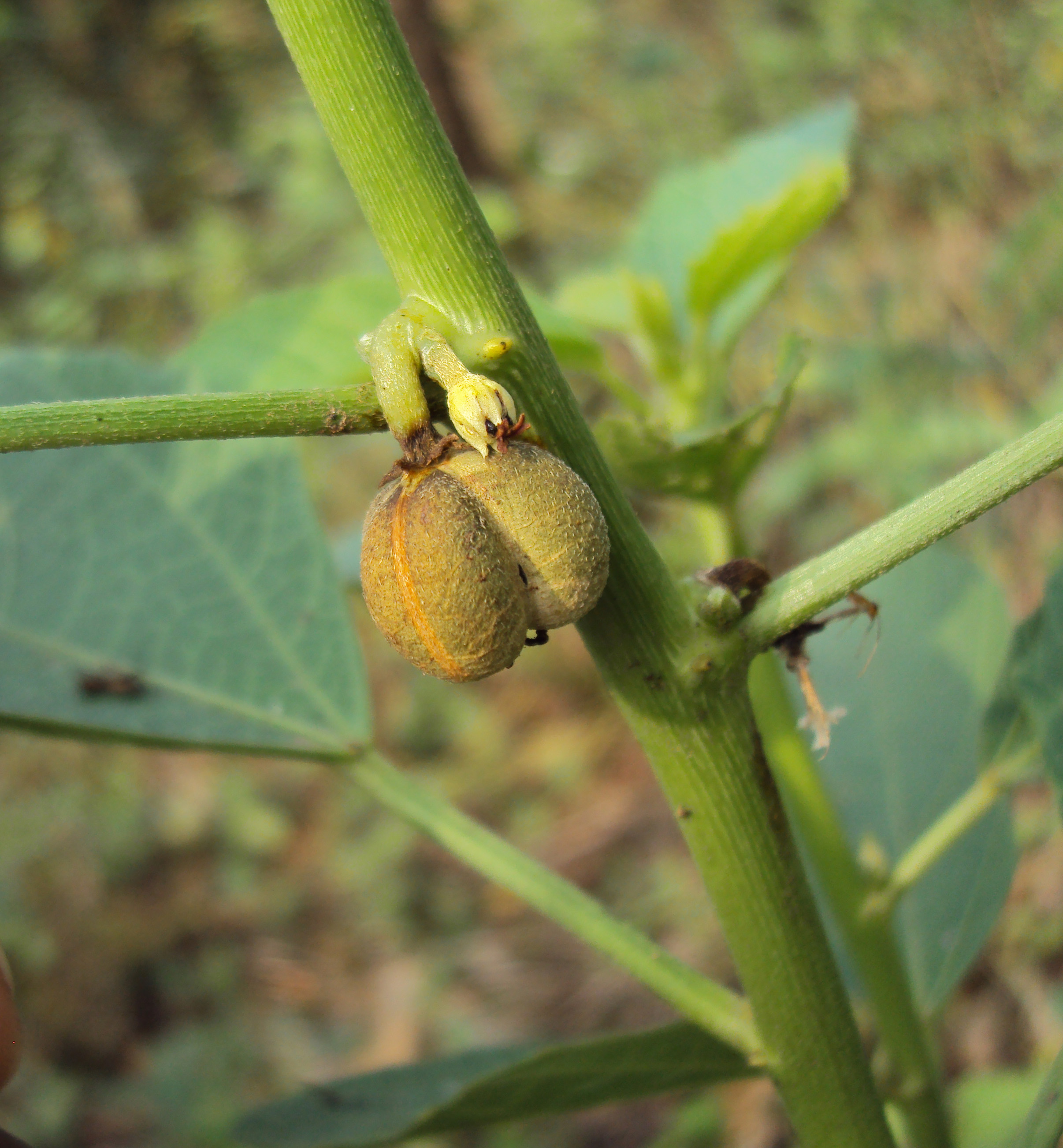 Baliospermum solanifolium